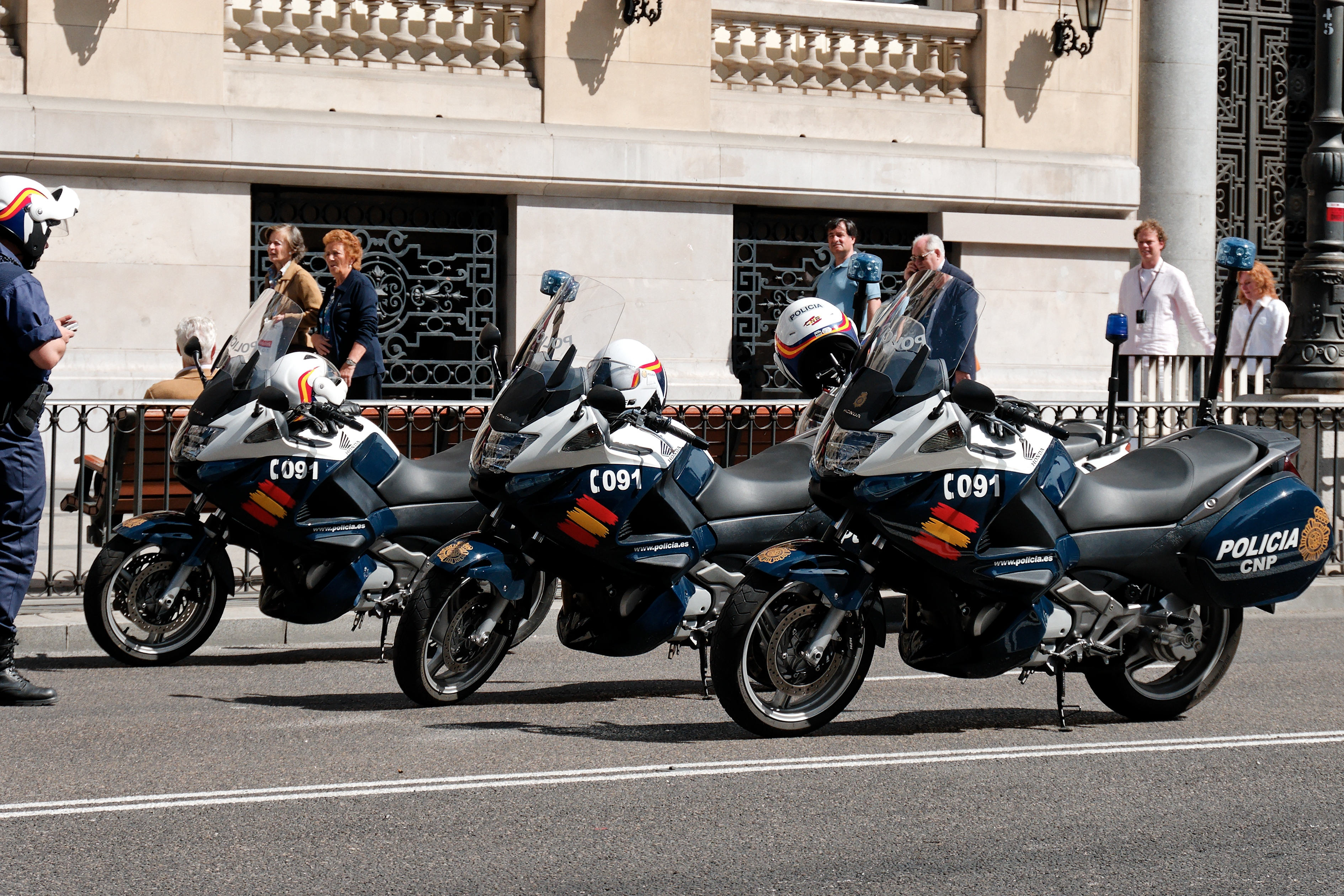 Motorbikes of the Cuerpo Nacional de Policía.